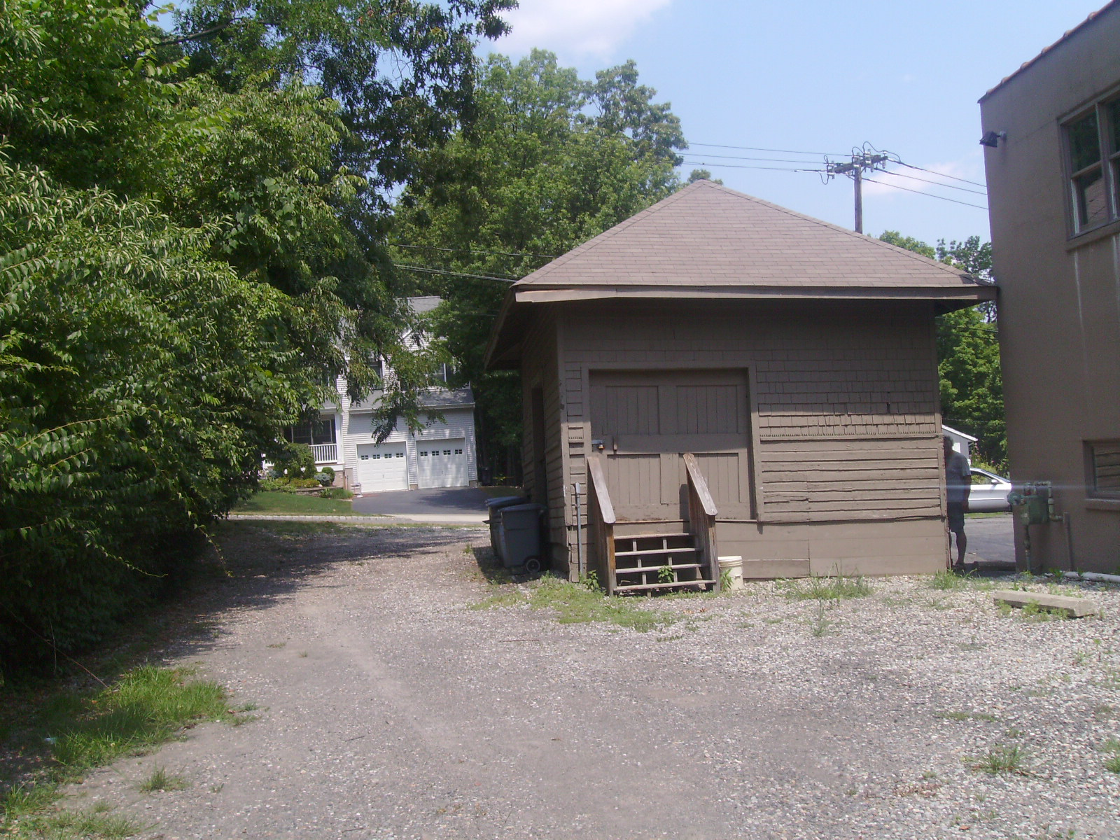 A view of the former freight shed for the Erie Railroad's former Verona Station in Verona, New Jersey. The station, which last saw passenger trains in 1966 and freight in 1975, has since been removed (only a shelter since 1960) although the painted freight shed remains.